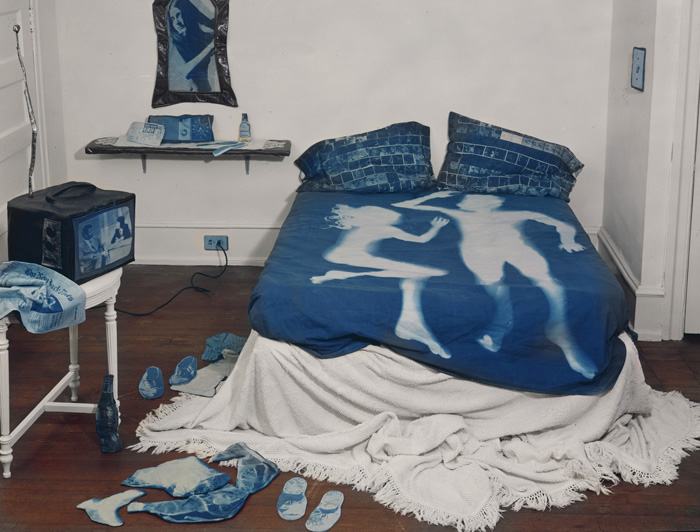 My first scaled to life room environment. Everything in the room is a cyanotype printed on cloth.